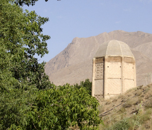 Shebeli Tower — Damavandm, Tehran Province, Iran. Built in the 10th century, in late Persian Samanid Empire era.